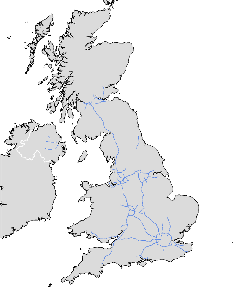 Motorways in Great Britain